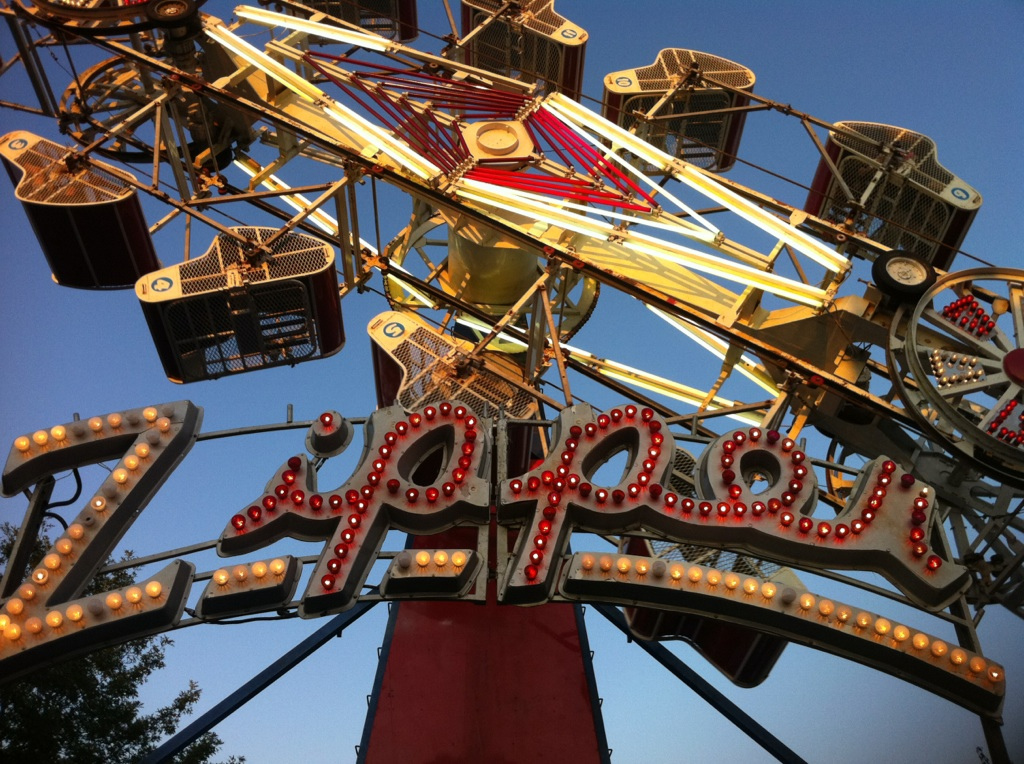 Zipper carnival ride